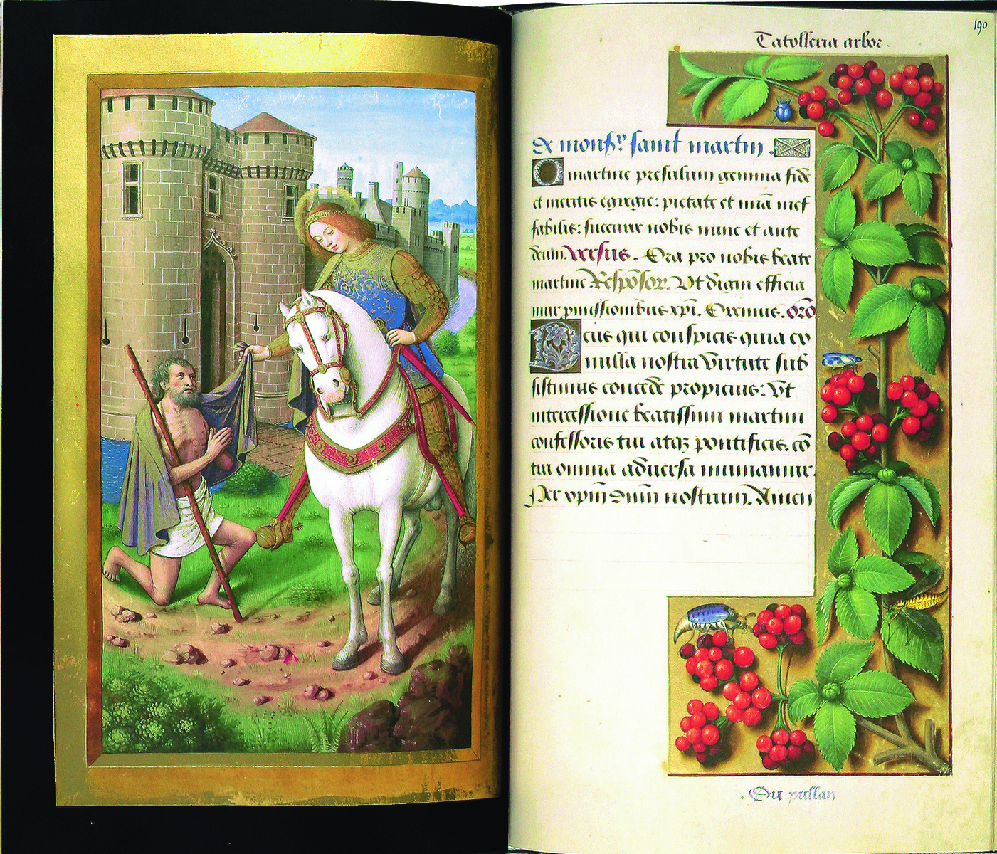 ghab